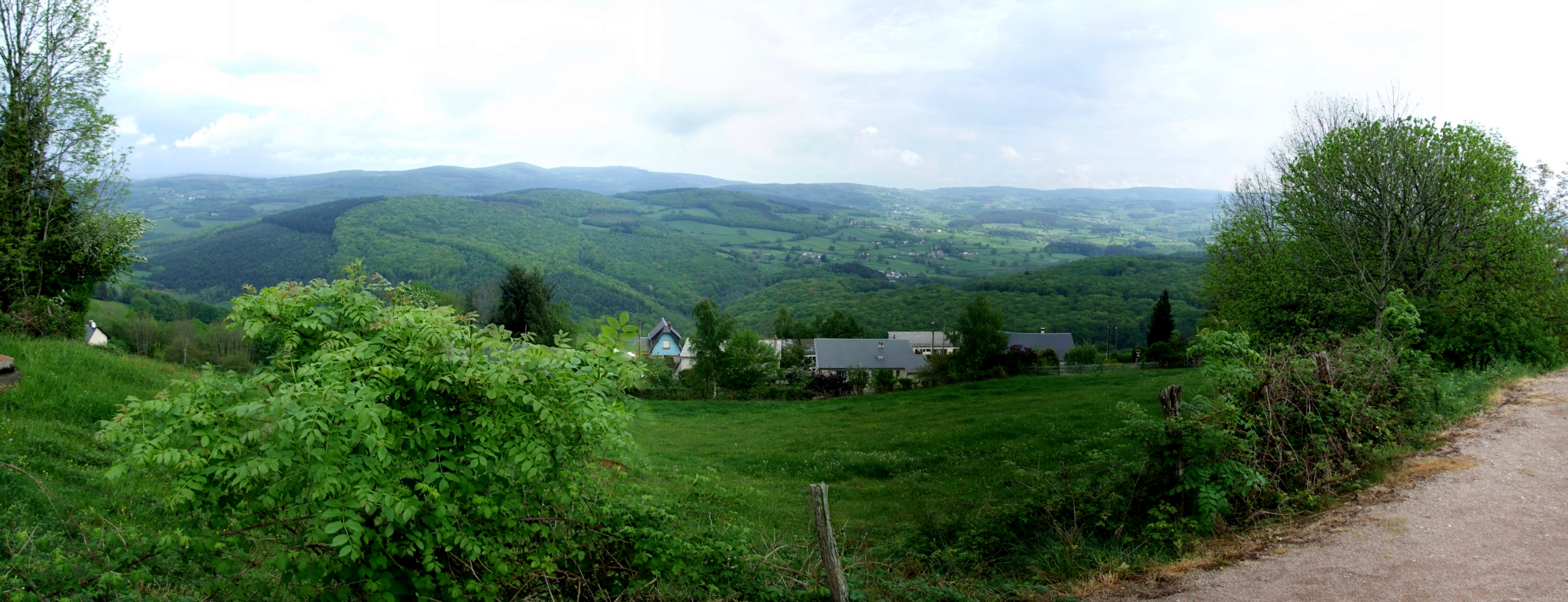 Château-Chinon (Ville), Nievre, Burgundy, FRANCE